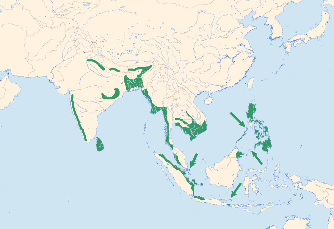 Combined range map of Greater Flameback Chrysocolaptes guttacristatus, Buff-spotted Flameback Chrysocolaptes lucidus, Luzon Flameback Chrysocolaptes haematribon, Yellow-faced Flameback Chrysocolaptes xanthocephalus, Red-headed Flameback Chrysocolaptes erythrocephalus, Javan Flameback Chrysocolaptes strictus, and Crimson-backed Flameback Chrysocolaptes stricklandi (formerly Chrysocolaptes lucidus sensu lato).